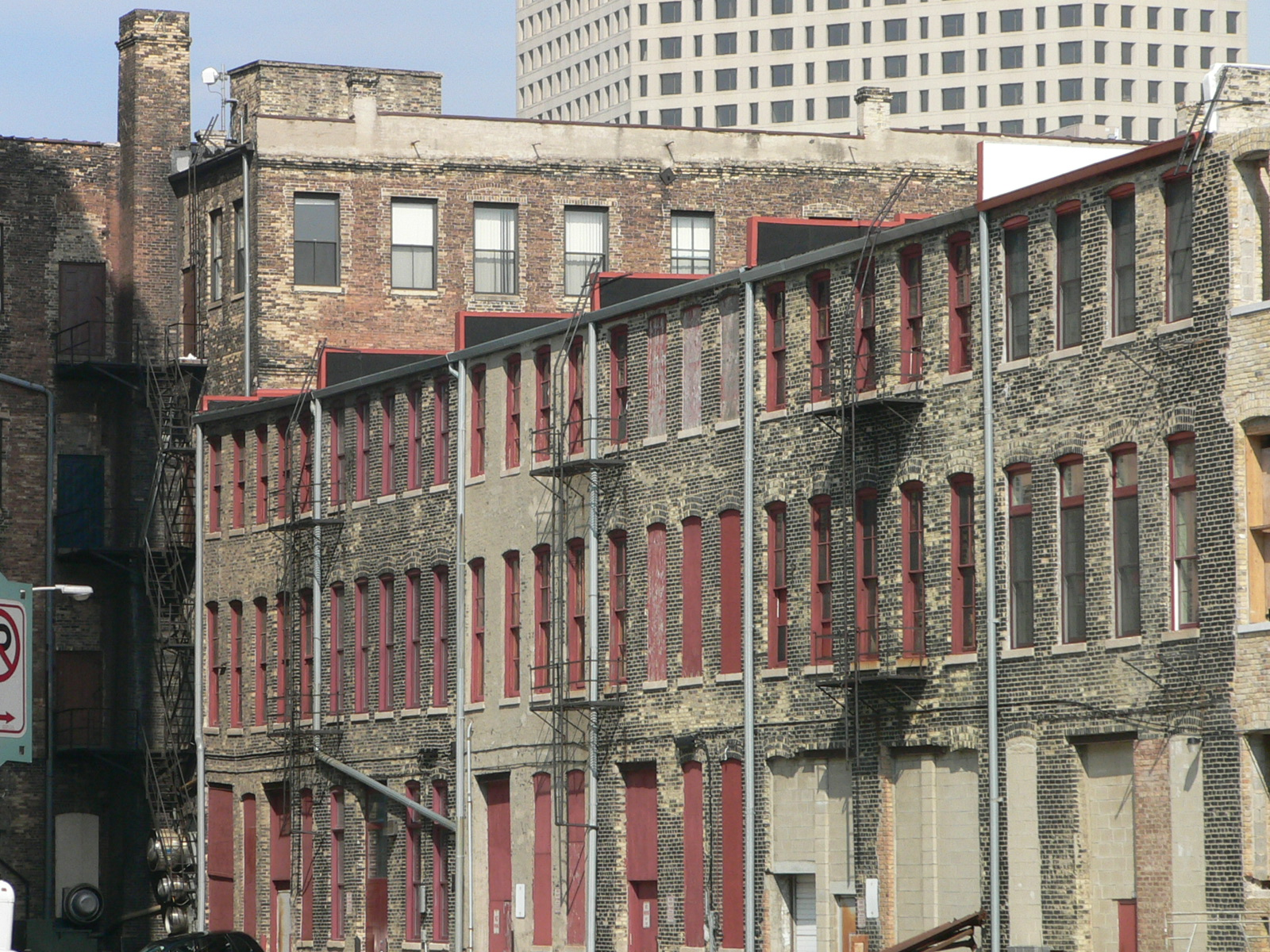 Deserted buildings in the historic Third Ward neighborhood of Milwaukee, Wisconsin. This is becoming a rare sight in this neighborhood as revitalization of buildings/warehouses (read condo development) has been widespread.